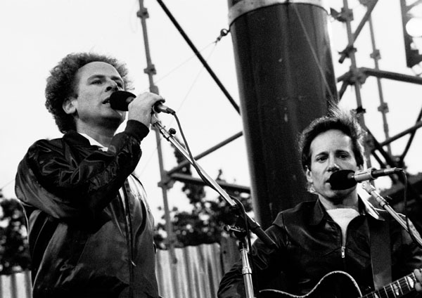 Singer-Songwriter duo Simon & Garfunkel performing outside at a concert in Dublin